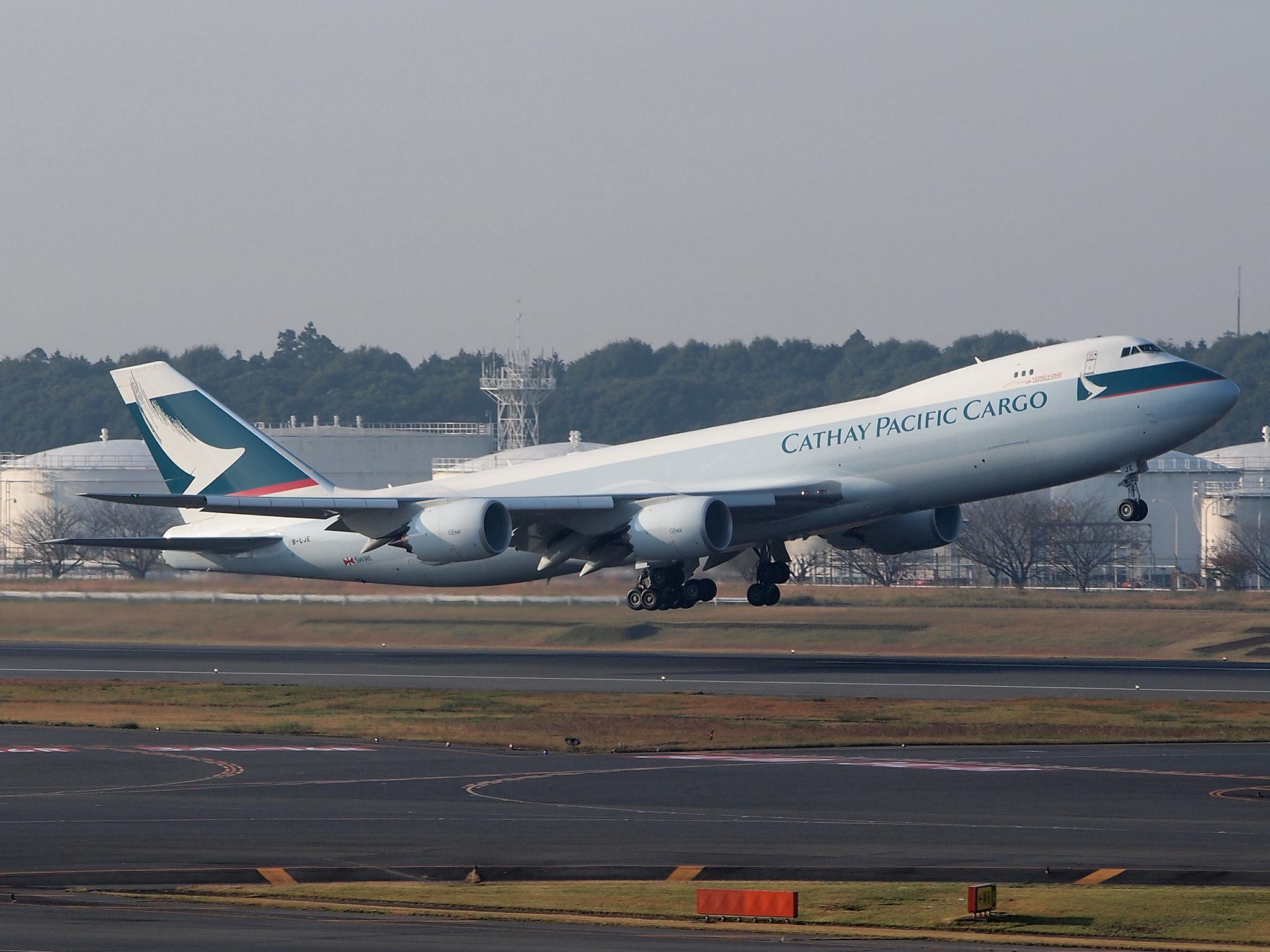 The 1st 747-8F for Cathay Pacific Cargo, also 1st 747-8 in Asia. Place: Narita International Airport